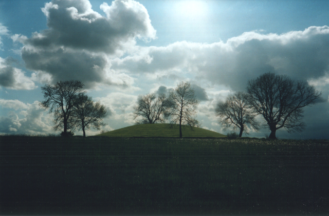 Navan Fort, County Armagh. Navan Fort, aka Emain Macha, ancient capital of Ulster. Settlement dates back to the Bronze Age. In 95BC a circular 40m structure was built, burnt down and covered with earth and turf to form the mound, thereafter used for the inauguration of kings.